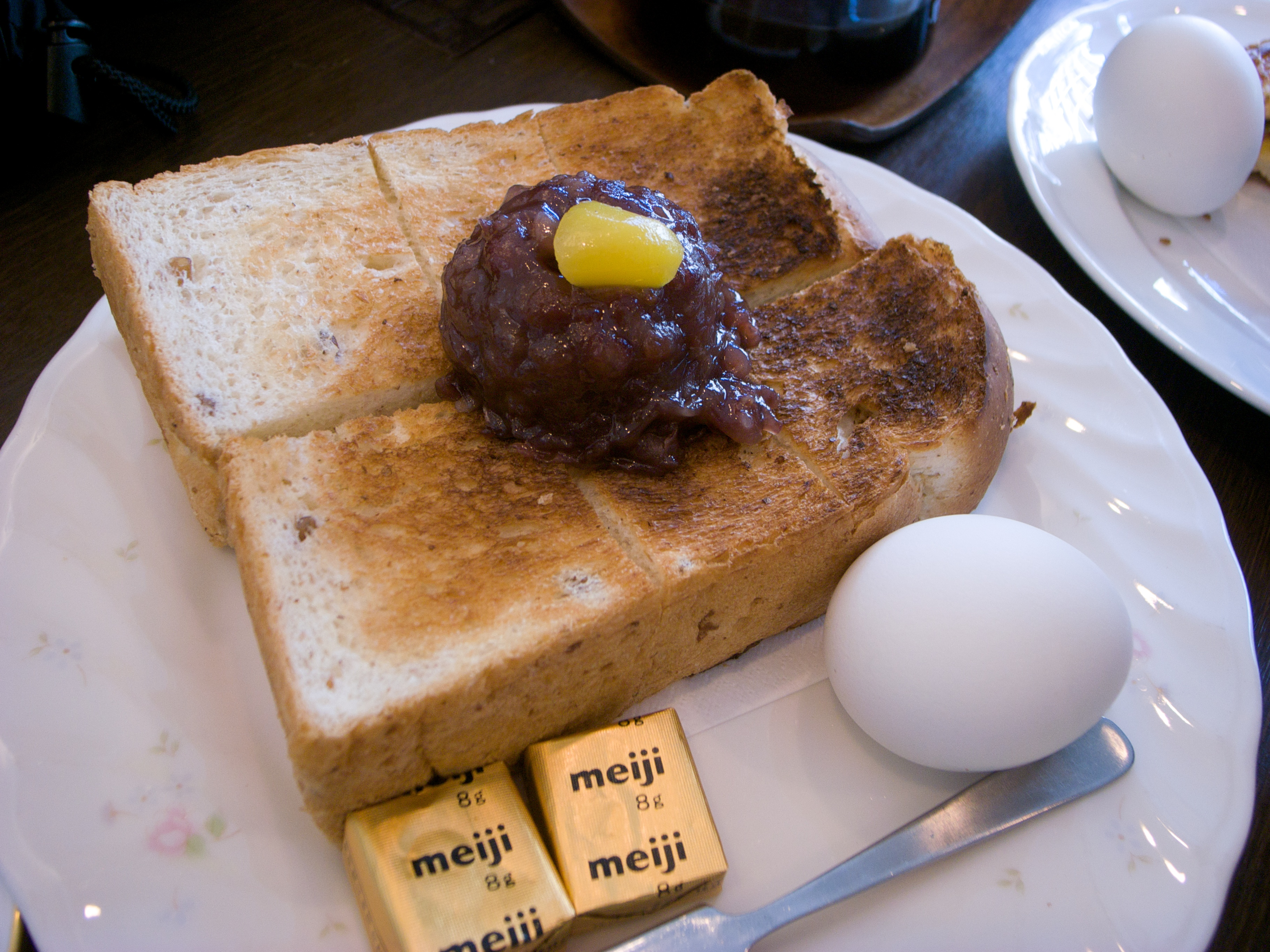 Ogura toast served boiled egg, on a typical morning set menu served at coffee shops in Nagoya, Japan. In most cases, a small salad, coffee or black tea complete the entry.